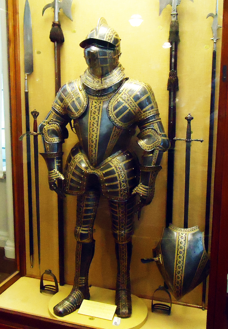 The armour which belonged to Thomas Sackville, Earl of Dorset and Lord Buckhurst, at the Wallace Collection in London